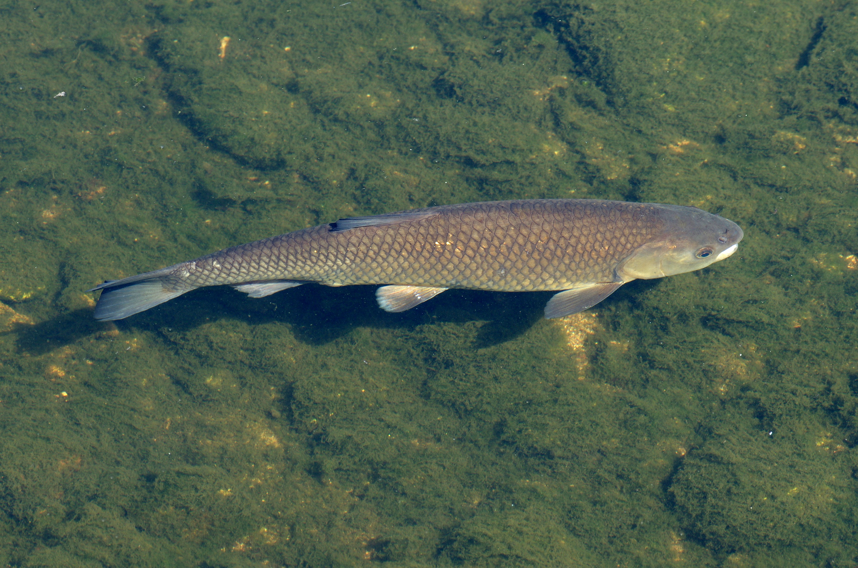 Grass Carp in the river Murg, Northern Black Forest, Germany.